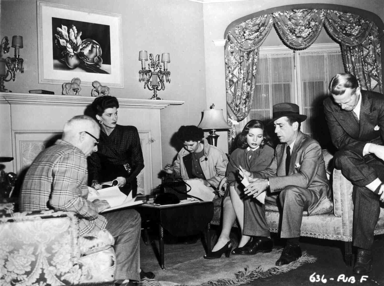 The Big Sleep, Behind the scenes